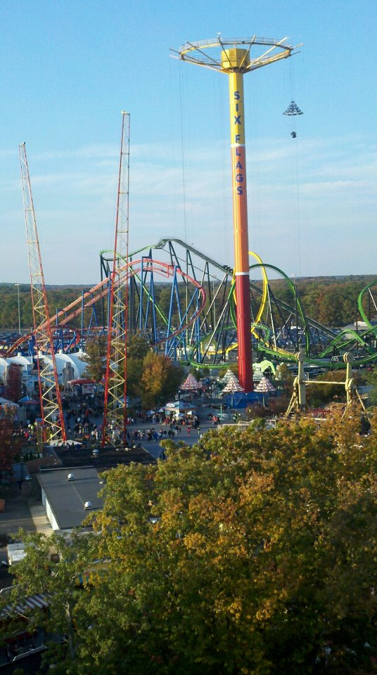 Picture taken from the Sky Ride